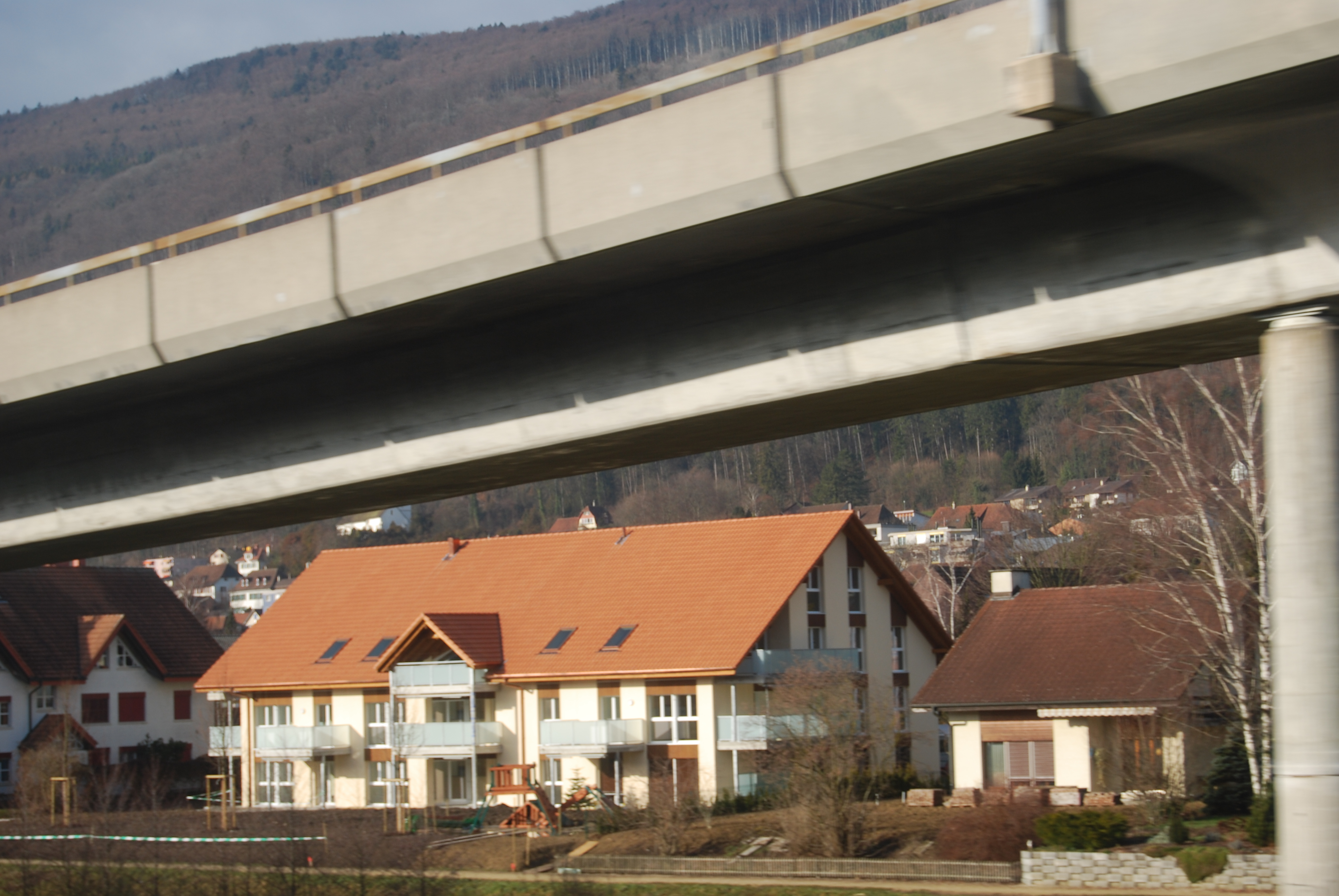 Pieterlen, canton of Bern, SwitzerlandEsperanto: Pieterlen, Kantono Berno, Svislando